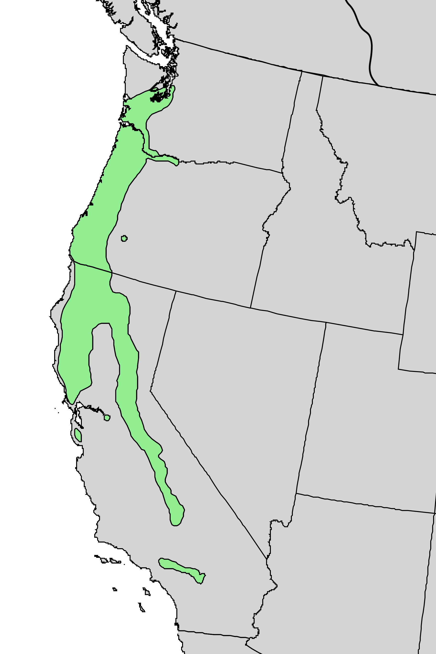 Natural distribution map for Fraxinus latifolia (Oregon ash)